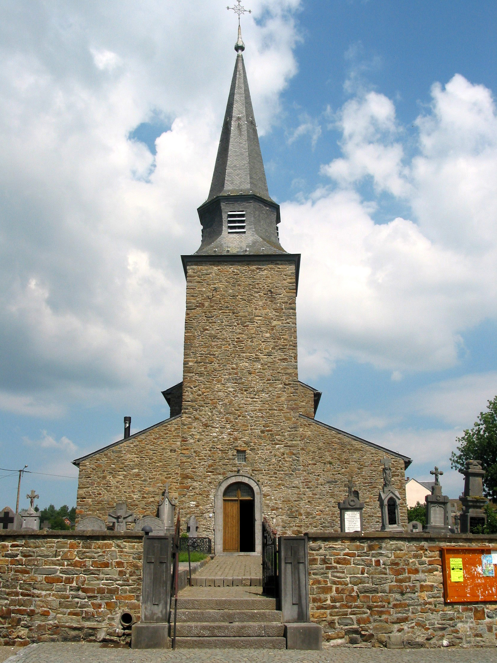 Cherain (Belgium), the Saint Vincent church (XIth century).